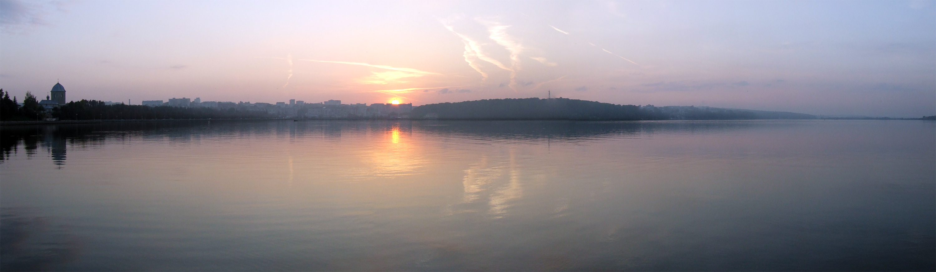 Ternopil. Regional landscape park «Zagrebellia».